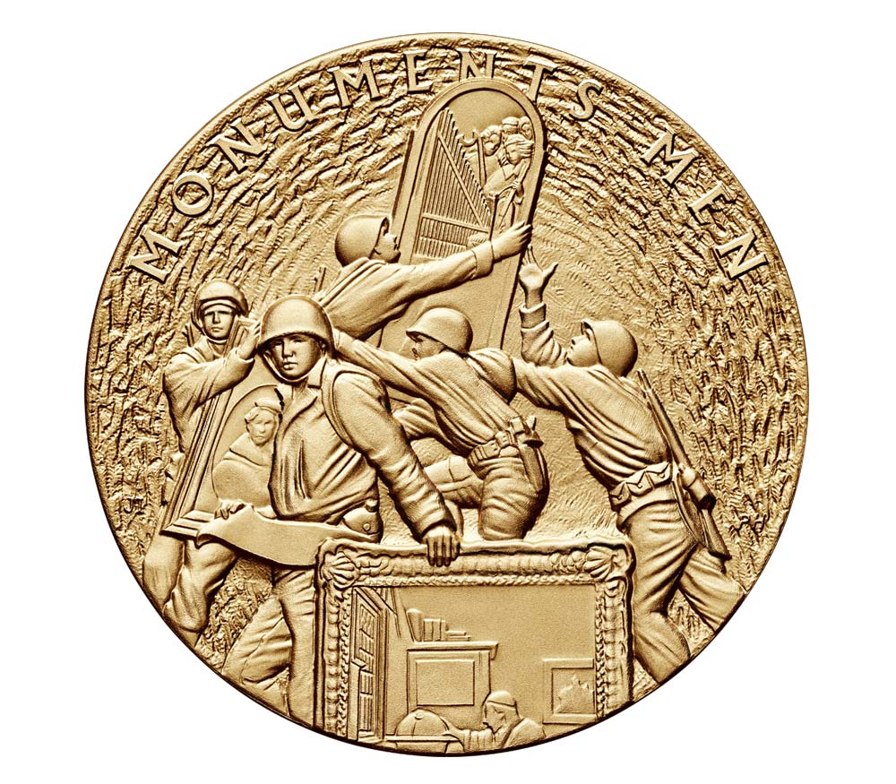 Obverse Designer: Joel Iskowitz Obverse Sculptor–Engraver: Phebe Hemphill Reverse Designer: Donna Weaver Reverse Engraver: Joseph Menna